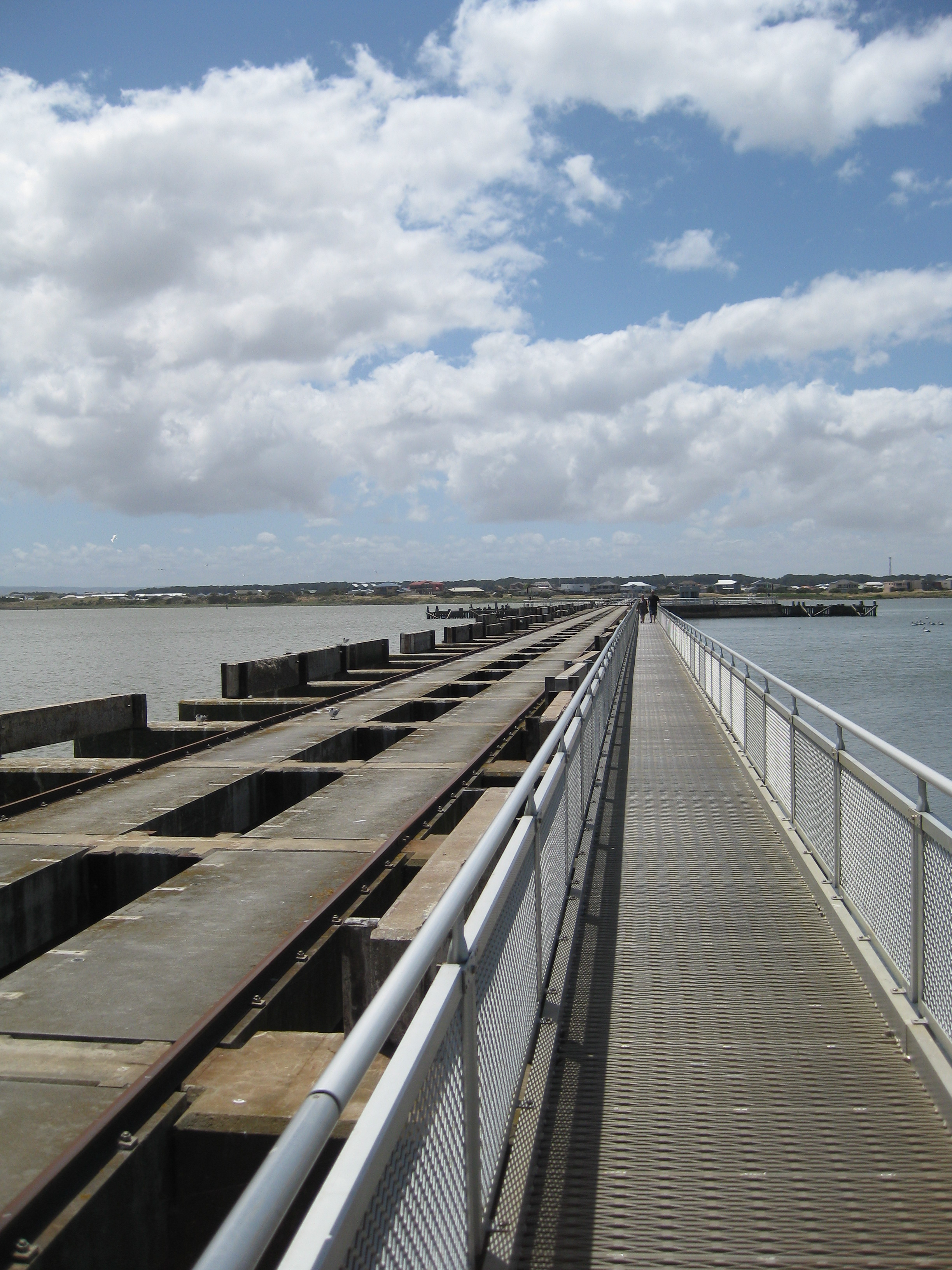 View of Goolwa Barrage looking towards Hindmarsh Island